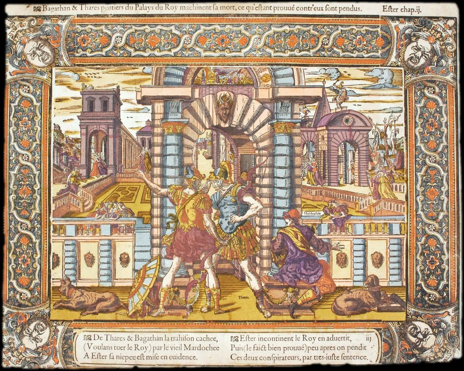 Bigthana and Teresh from the Book of Esther